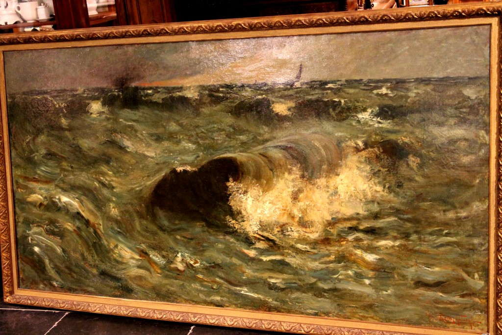 Oil on canvas painting of the North Sea by Victor Gilsoul. 202x106 cm. Private collection.